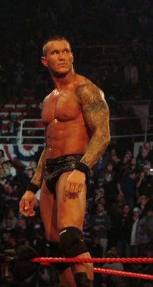 Randy Orton after winning the 2009 Royal Rumble Match